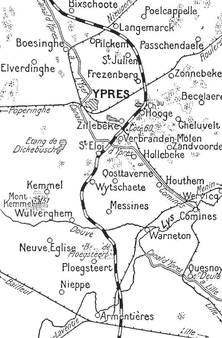 Map of the Western Front (north) 1914-1915